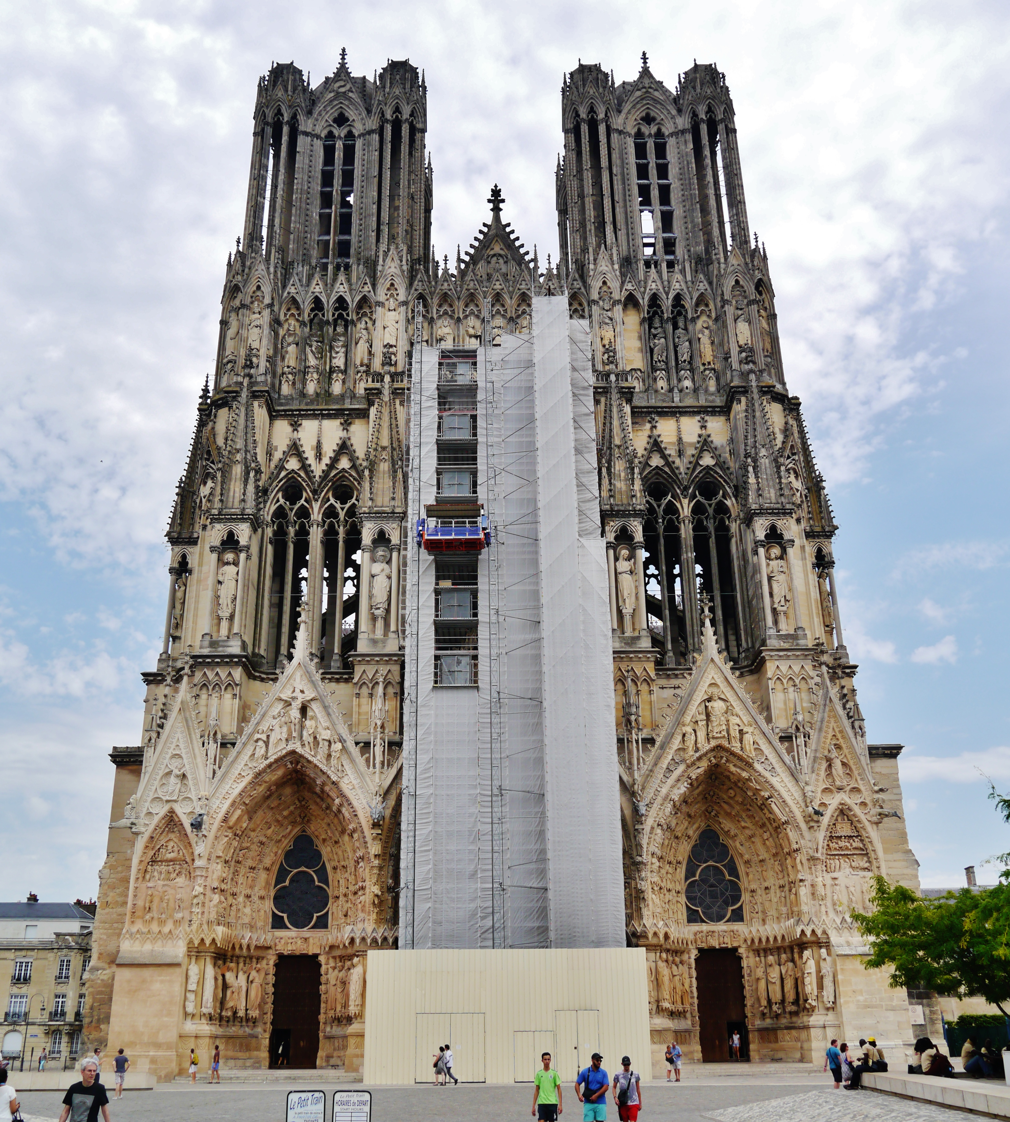 Facade of the Cathedral of Our Lady, Reims, Département of Marne, Region of Grand East (former Champagne-Ardenne), France